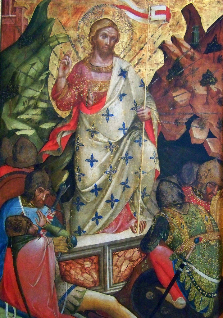 Lorenzo_Veneziano,_Resurrection._1371_Castello_Sforzesco,_Milan